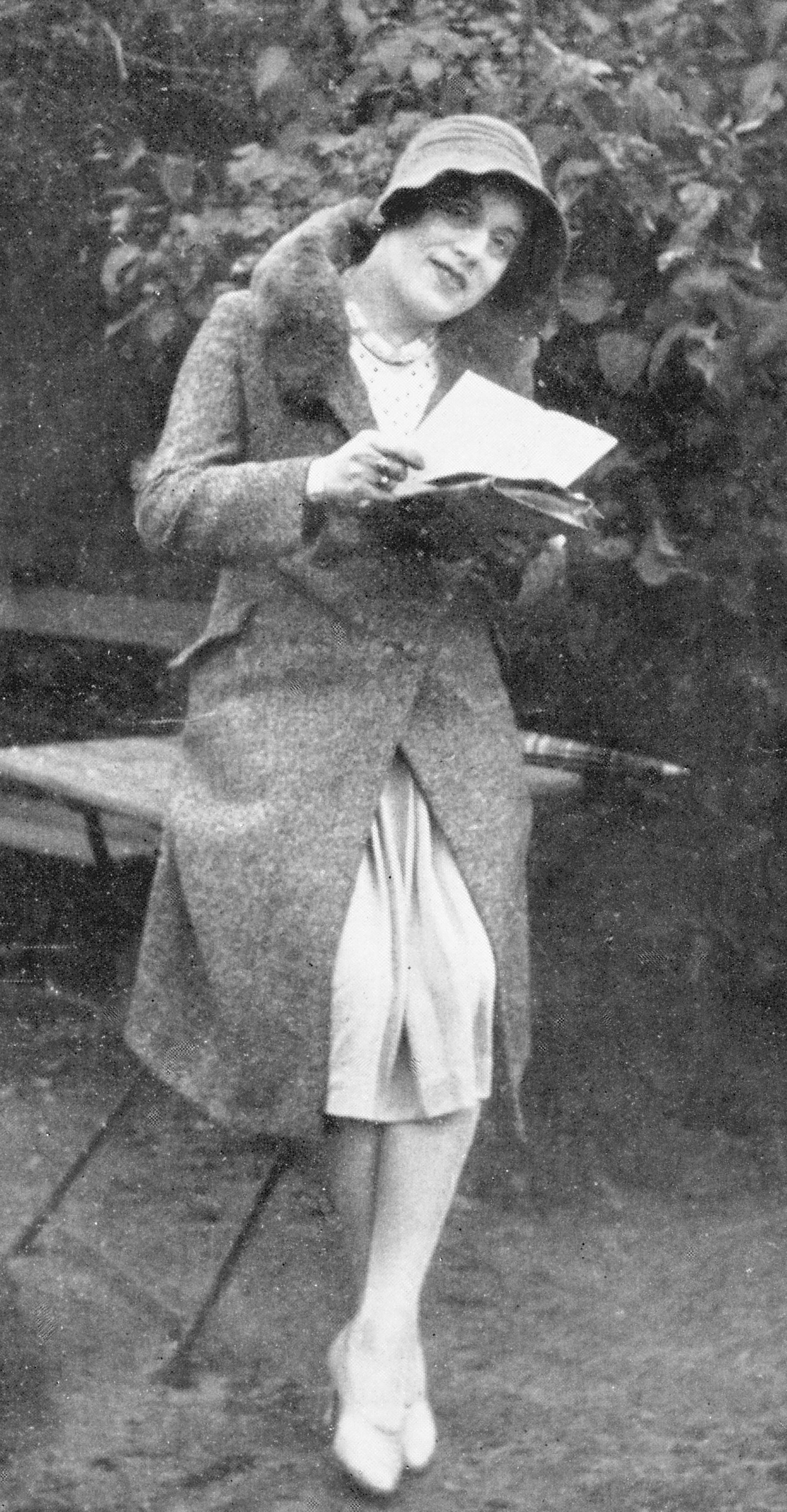 from N. Hoyer, ed., Man into Woman. An Authentic Record of a Change of Sex. The true story of the miraculous transformation of the Danish painter Einar Wegener (Andreas Sparre). London: Jarrolds, 1933. Photograph: Lili Elbe, Copenhagen, 1930, opp. p. 176.